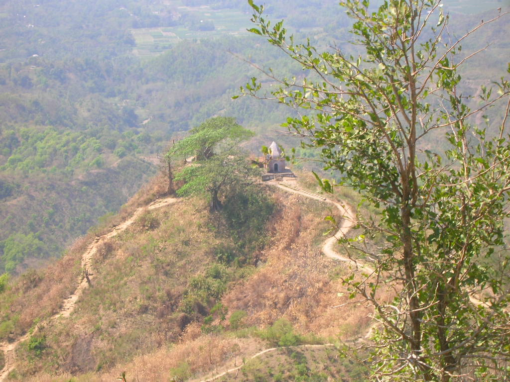 Picture of Chandranath Hill and Mandir